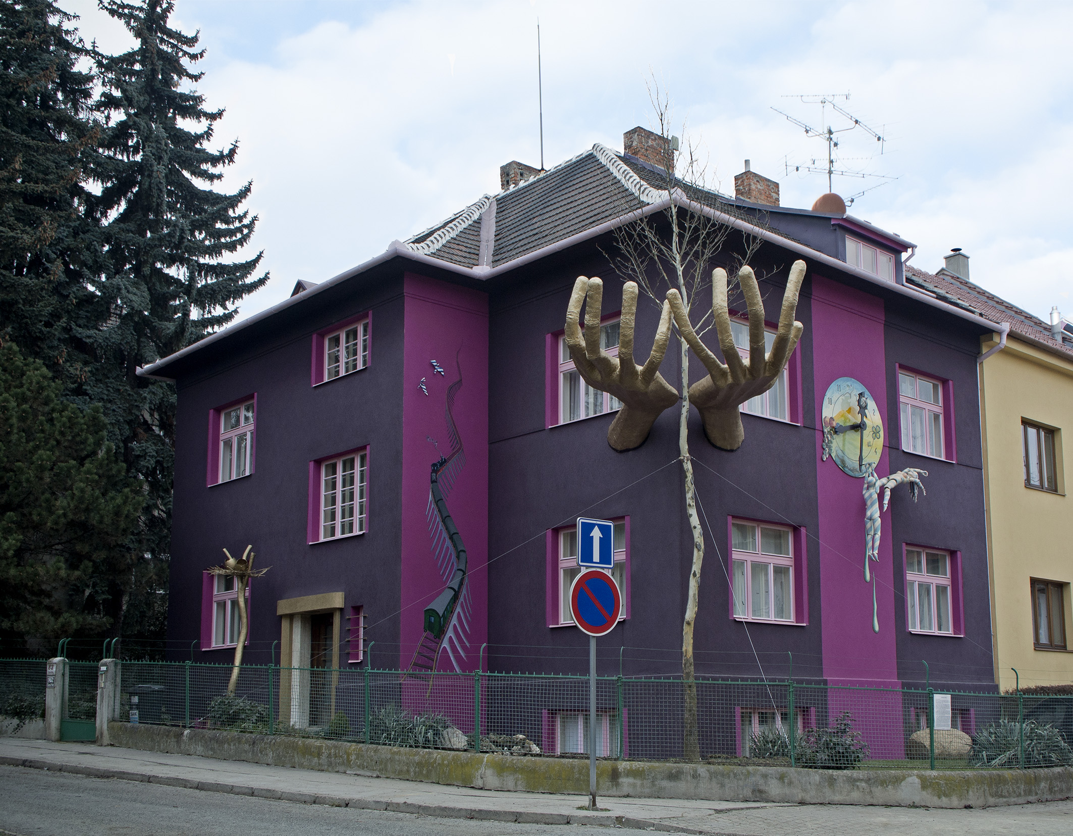 Kristek House in Brno, Czech Republic